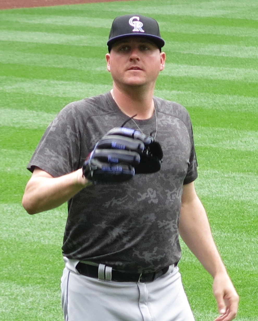 Jake McGee of the Colorado Rockies, July 31, 2016.